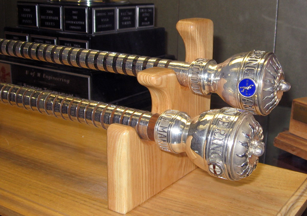 A picture of the tops of the two University of Manitoba Engineering Society sticks of office, showing the detailed ornamental top and bands on the rod engraved with the names of past Senior Sticks.